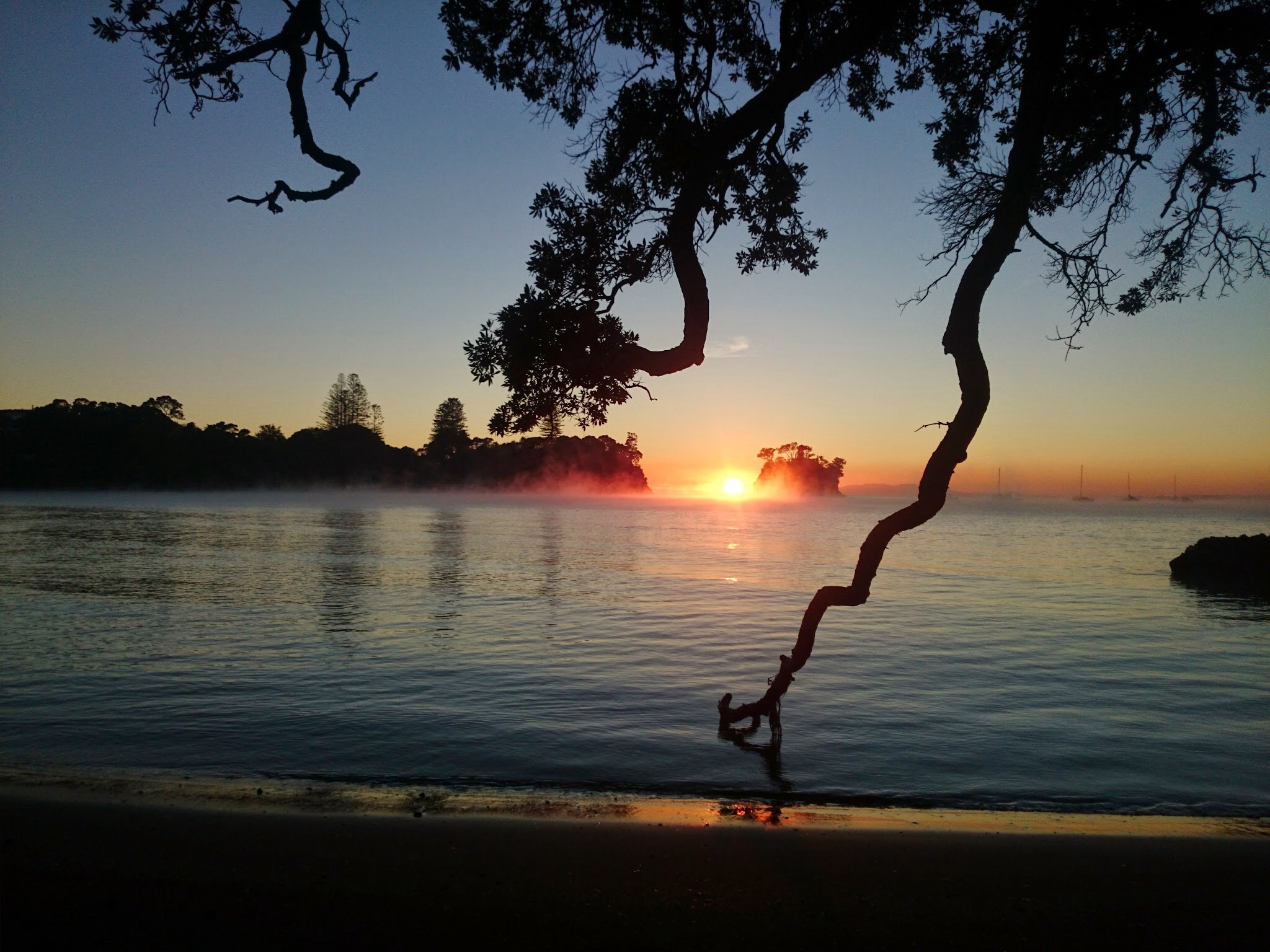 Sunrise at Waiake Beach, East Coast Bays, New Zealand